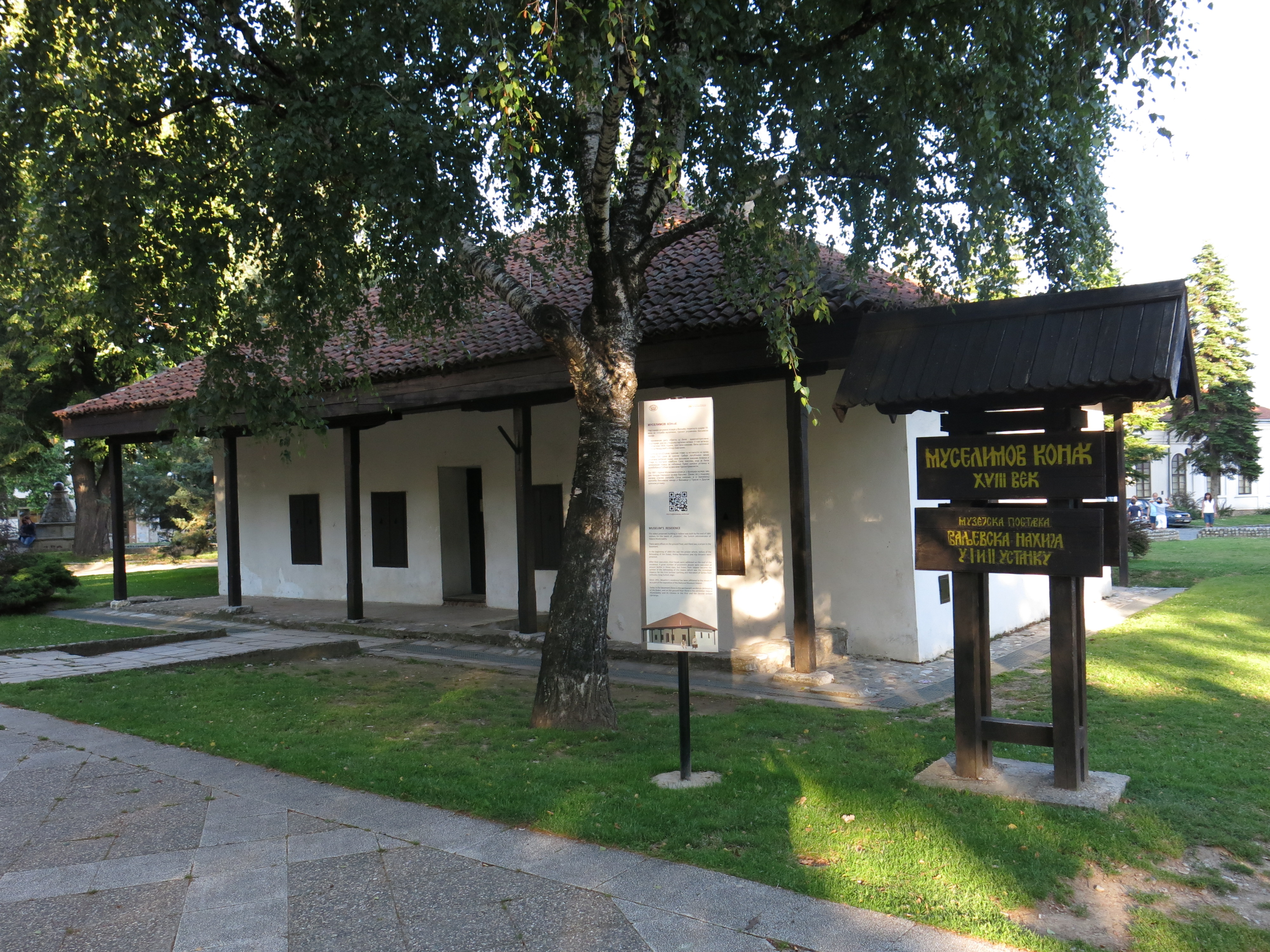 Valjevo, Muselim's konak